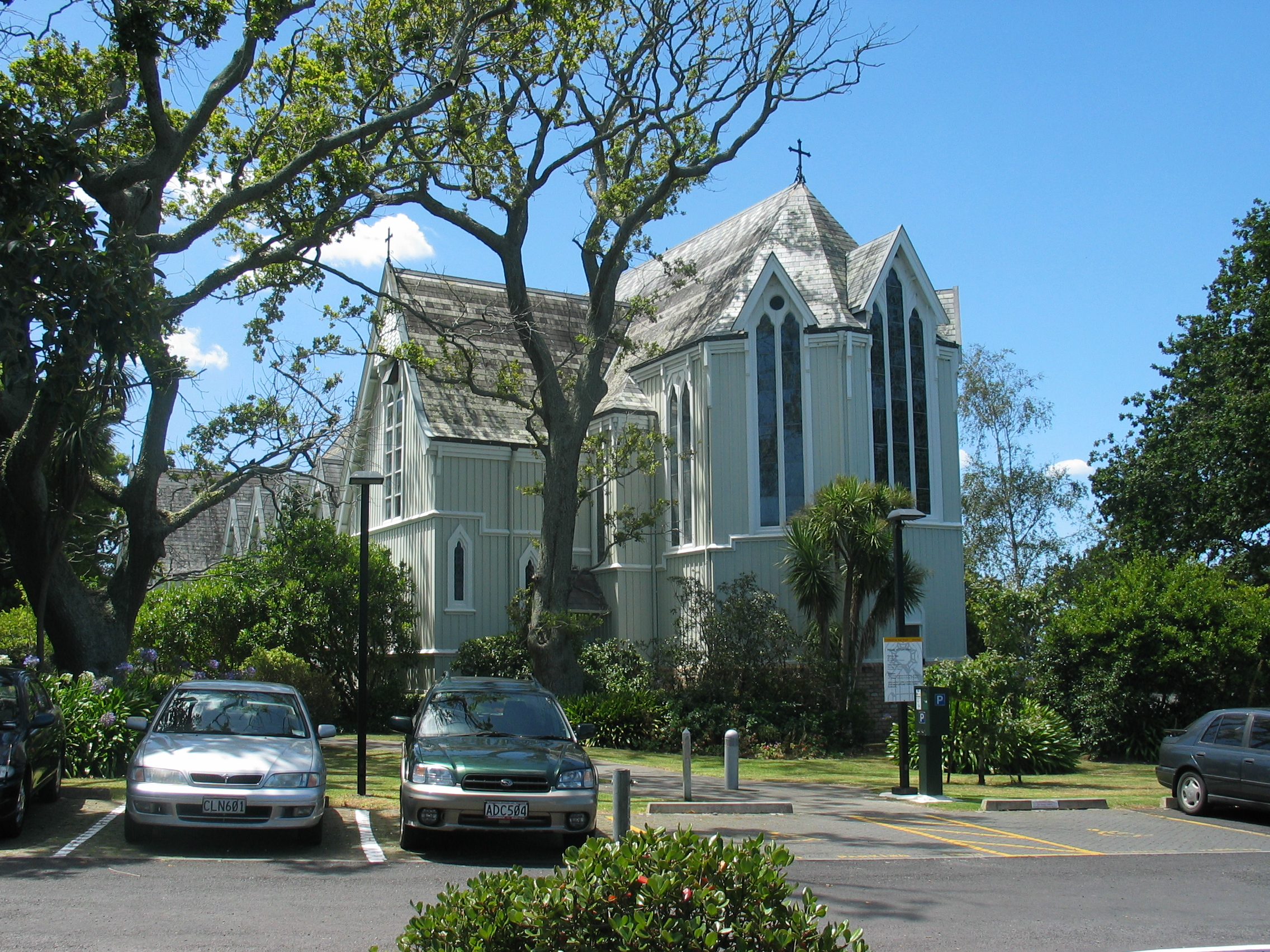 St Mary's Church, Parnell, New Zealand. Taken from the South on 17 January 2006.